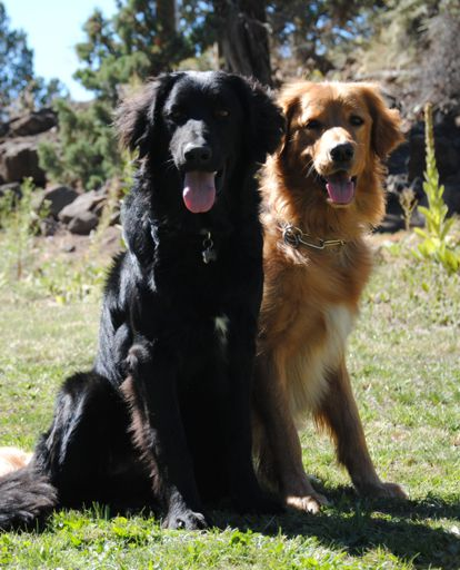 Black male, blond female hovwart